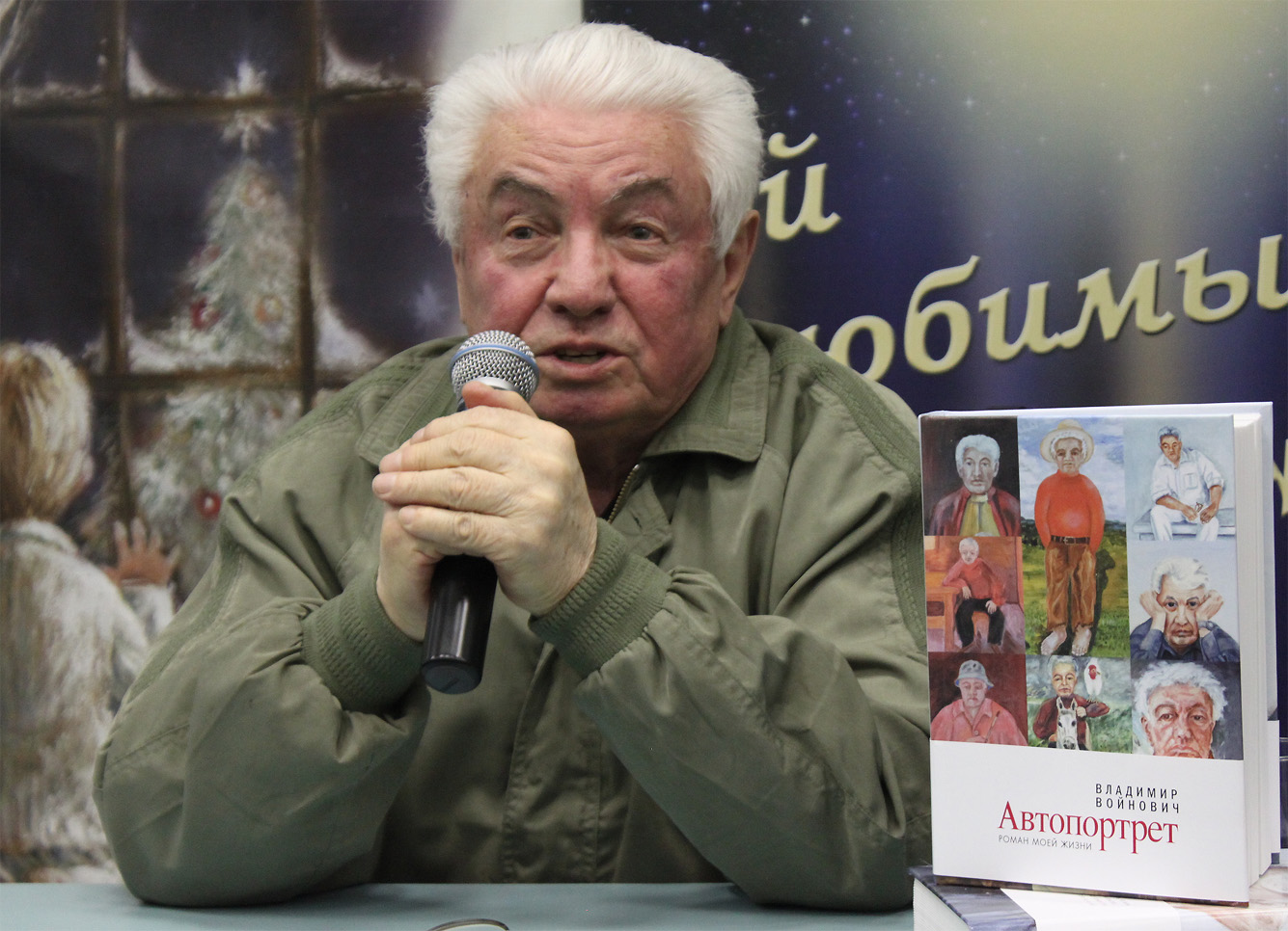 Russian writer Vladimir Voinovich